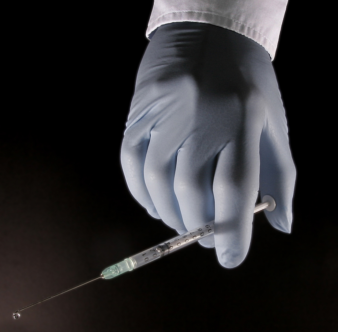 Insulin type syringe ready for injection. Patients view.